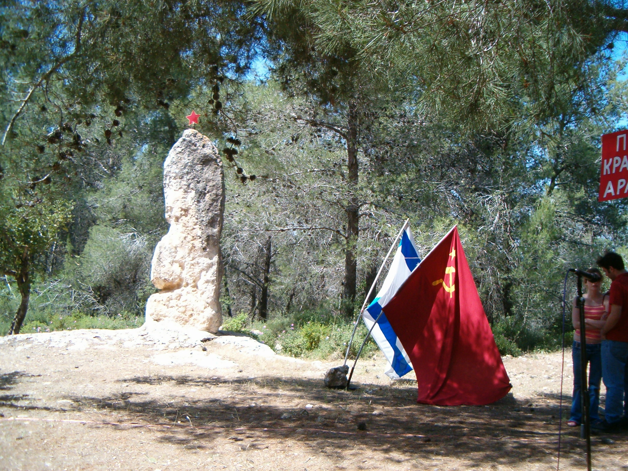 Victory Day (May 9) in "The Red Army forest" on "Har Haruakh" located near Ma'ale HaHamisha in the Judean Mountains in Israel.